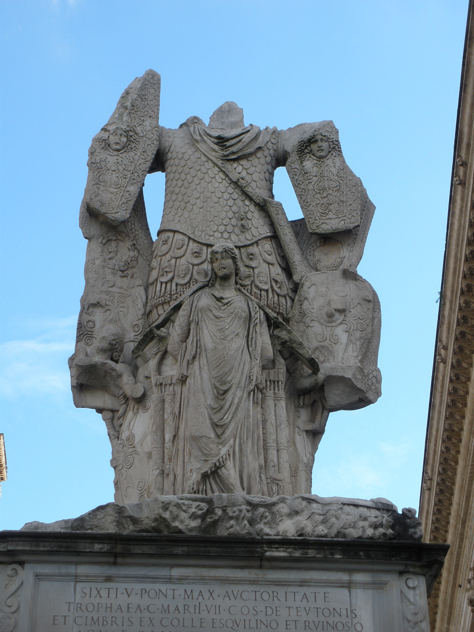 One of the two victory compositions (the so-called Trofei di Mario) on top of Cordonata, the monumental ladder that goes up to piazza del Campidoglio, in Roma. Right one.